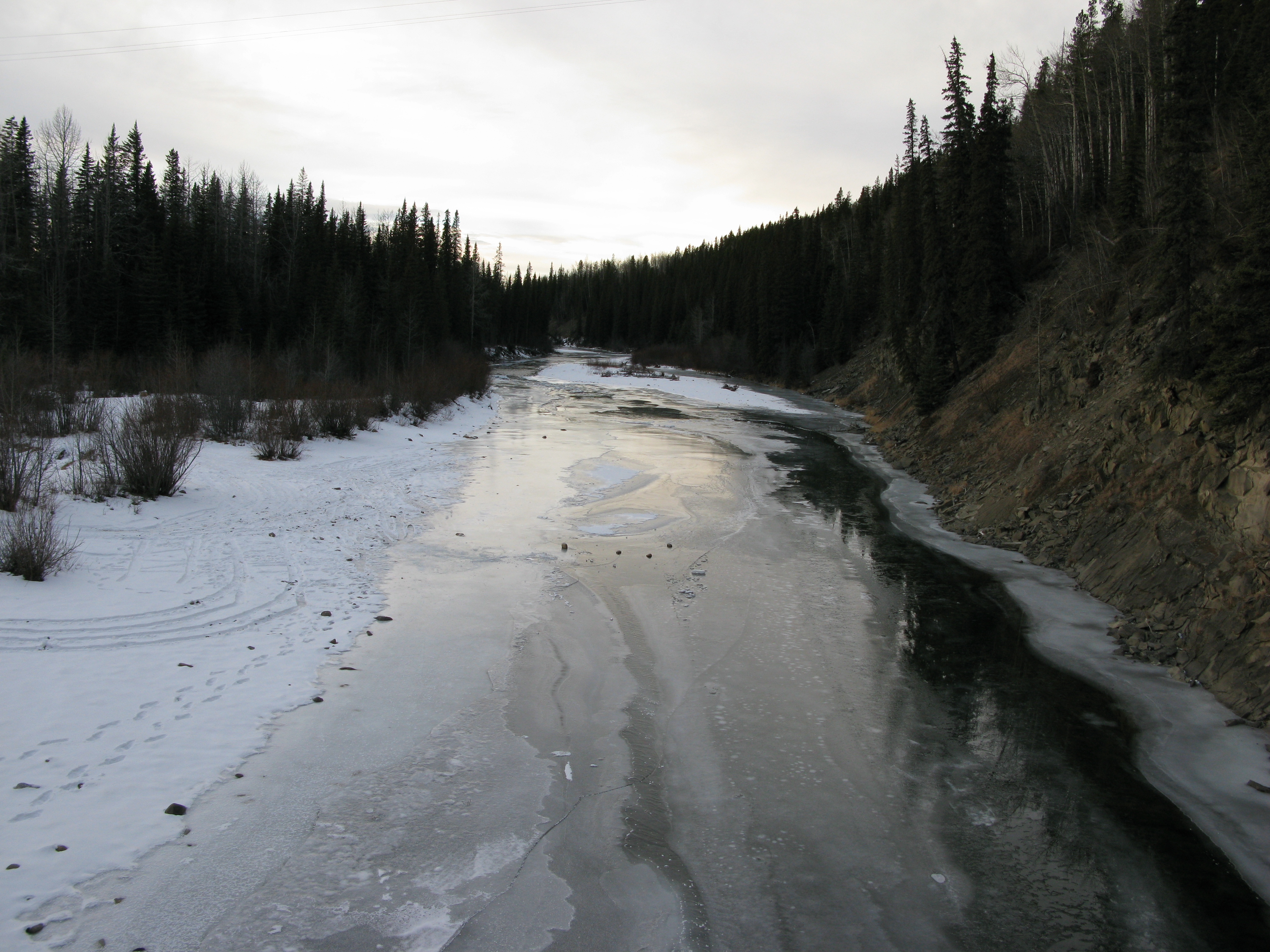 Erik Lizee